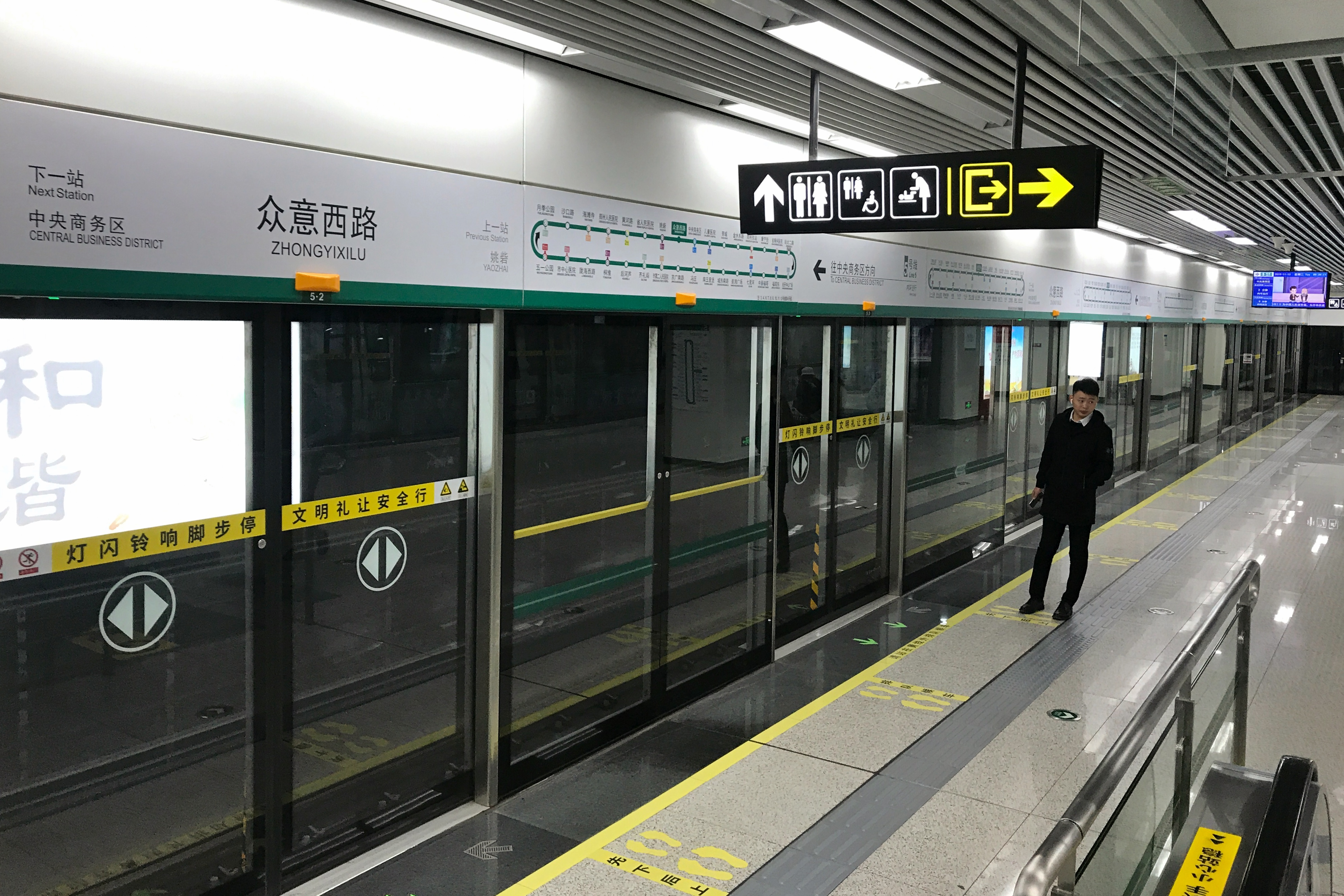 Platform of Zhengzhou Metro Zhongyixilu Station